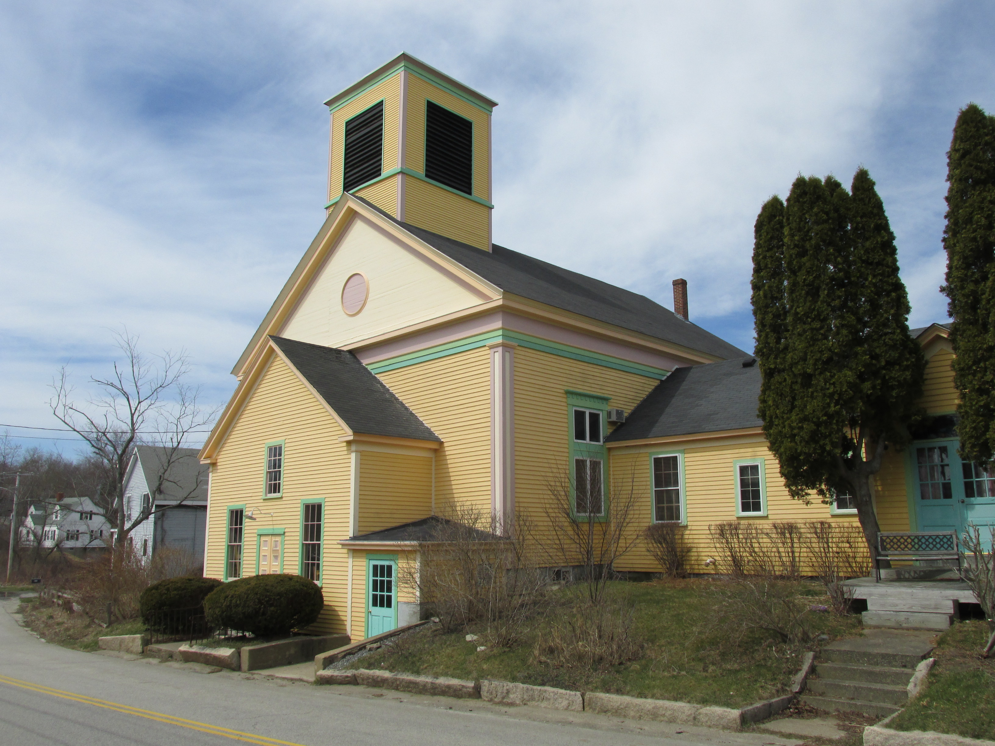 Sanctuary Arts, South Eliot Maine - 2013